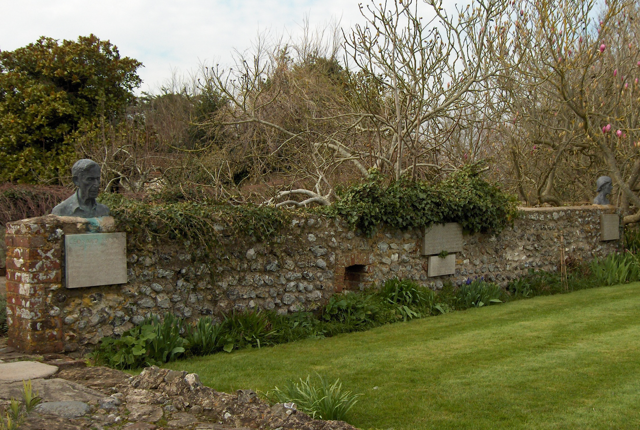 Bust of Leonard Woolf (* 25. November 1880 in London; † 14. August 1969 in Rodmell, Sussex), publisher, mostly known as husband of author Virginia Woolf. At their own cottage “Monks House”